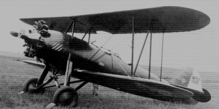 A Fzir FP-2 of the Royal; Yugoslavian Air Force